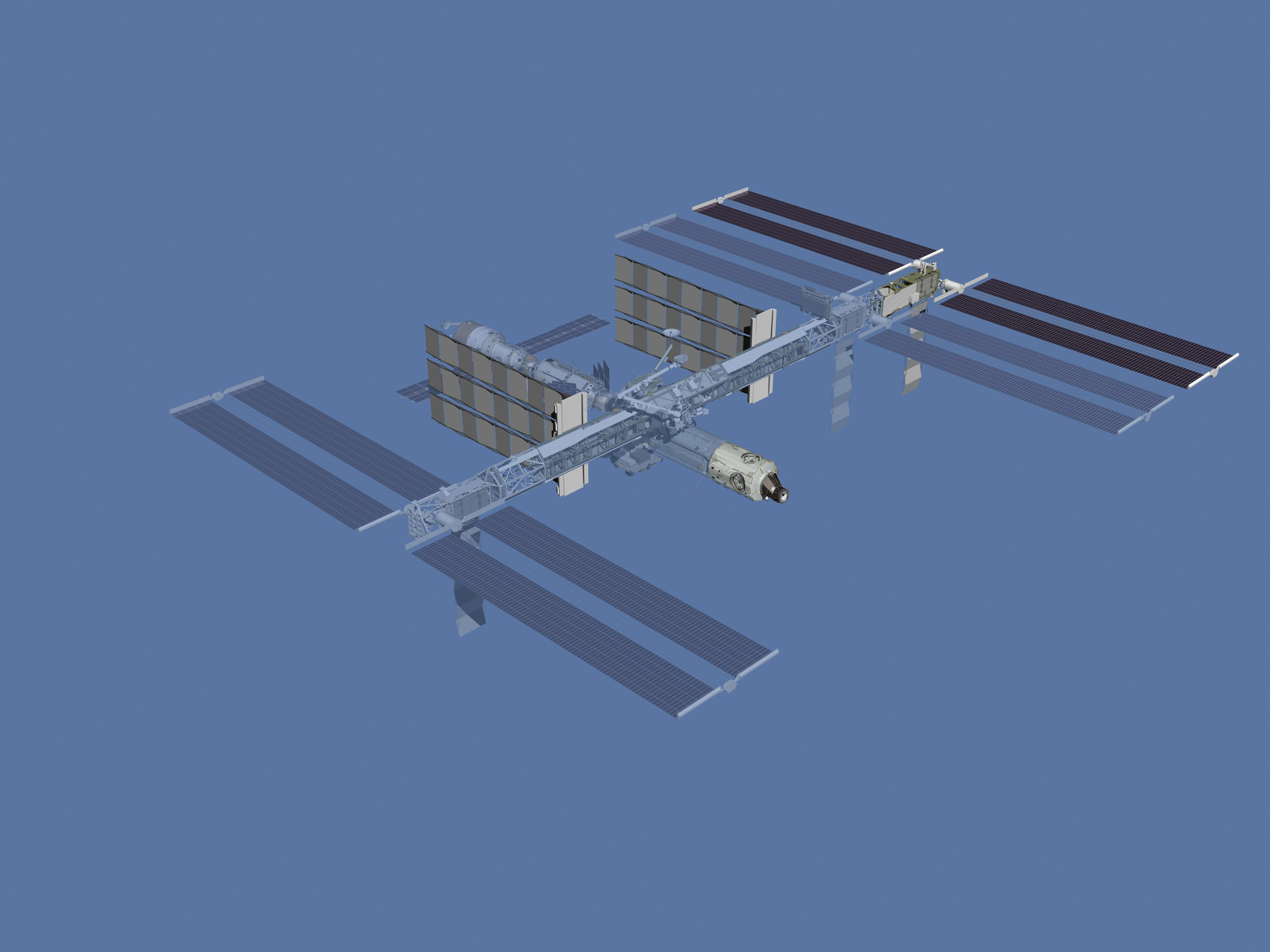 Computer-generated artist’s rendering of the International Space Station after flight STS-120/10A. Node 2 is installed on Unity node port side temporarily; P6 truss is attached to P5 truss and arrays are deployed. Pressurized Mating Adapter-2 (PMA-2) is moved to Node 2; then both Node 2 with PMA-2 are attached to the front of the Destiny laboratory. Zarya arrays are retracted to allow room for the deployment of all Thermal Control System (TCS) radiators.